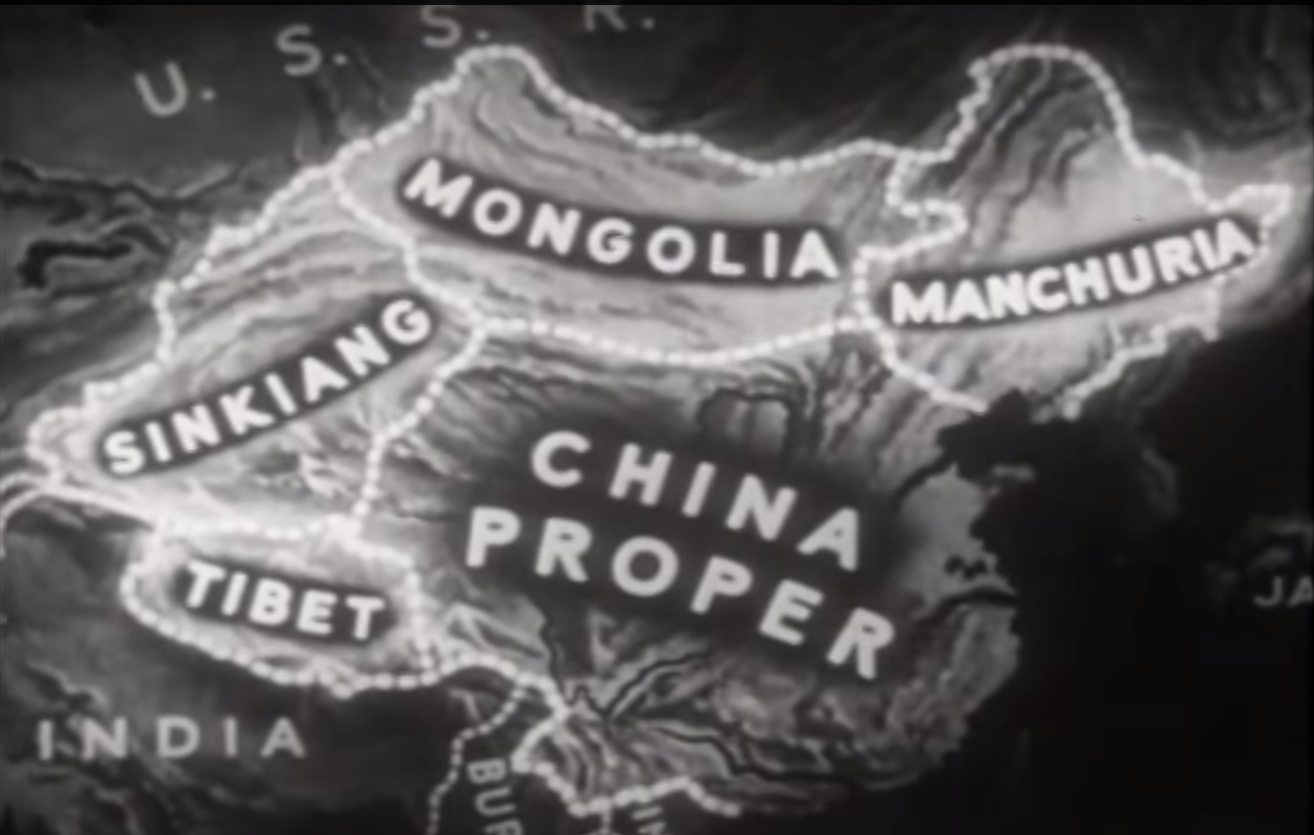 A Map of China Proper, Manchuria (Dongbei/Manchukuo), Mongolia, Sinkiang (Xinjiang), and Tibet (Xizang). The map includes areas presently administered by Russia, Tajikistan, Mongolia, Pakistan, Afghanistan, Bhutan, and Burma but generally respects the claims of British India with regard to its own disputed border with the Republic of China. It notably respects the claims to Japan's ownership of the island of Formosa (Taiwan).